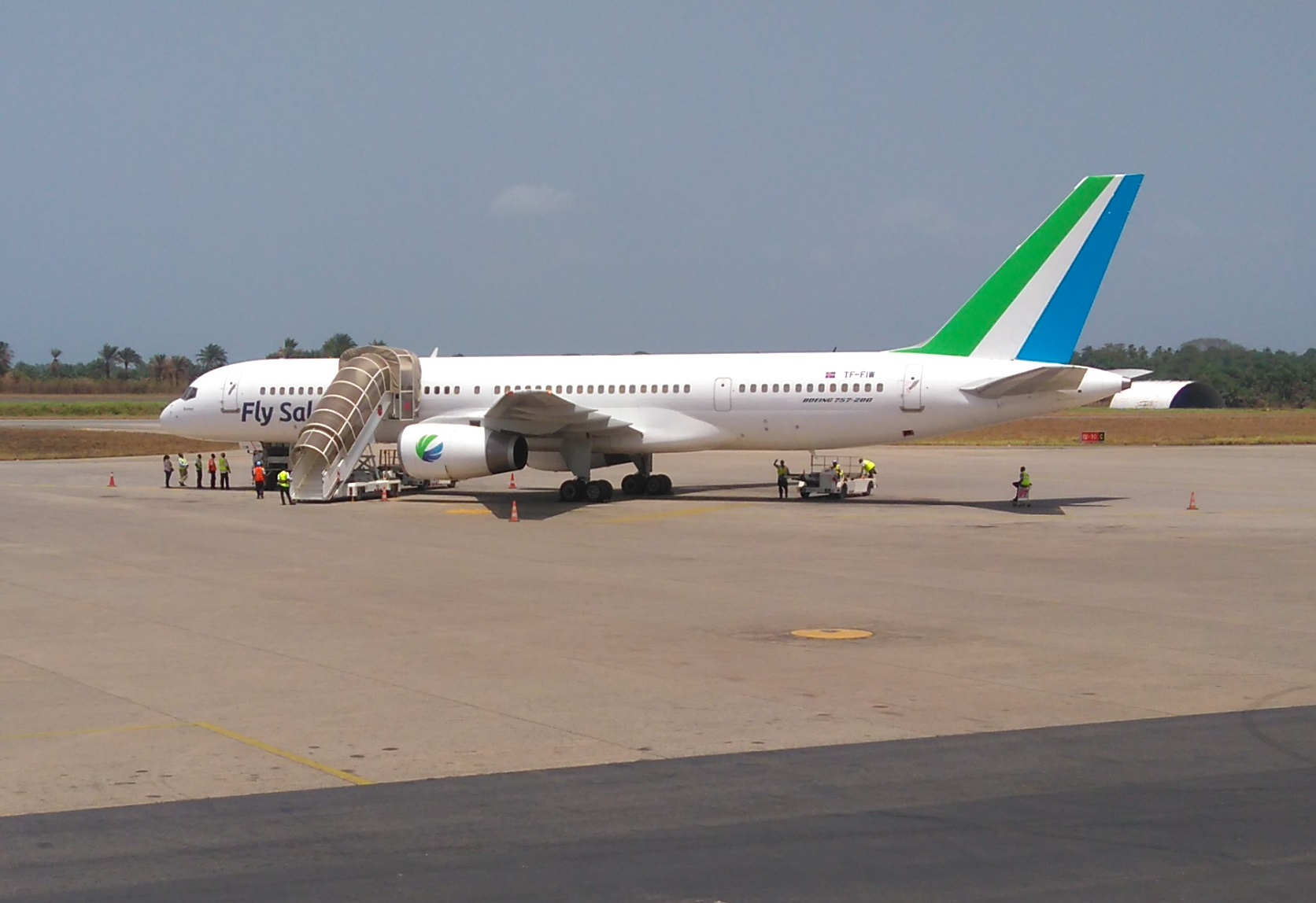 Fly Salone's former Boeing aircraft, leased from Iceland Air.